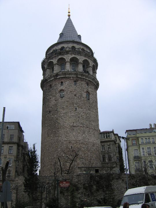 Galata Tower, located in Istanbul. Photo taken by me, provided for free use. Galata Tower, located in Istanbul. Photo taken by me, provided for free use.